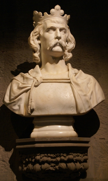 Wallace Monument, Stirling, Scotland - bust of Robert the Bruce